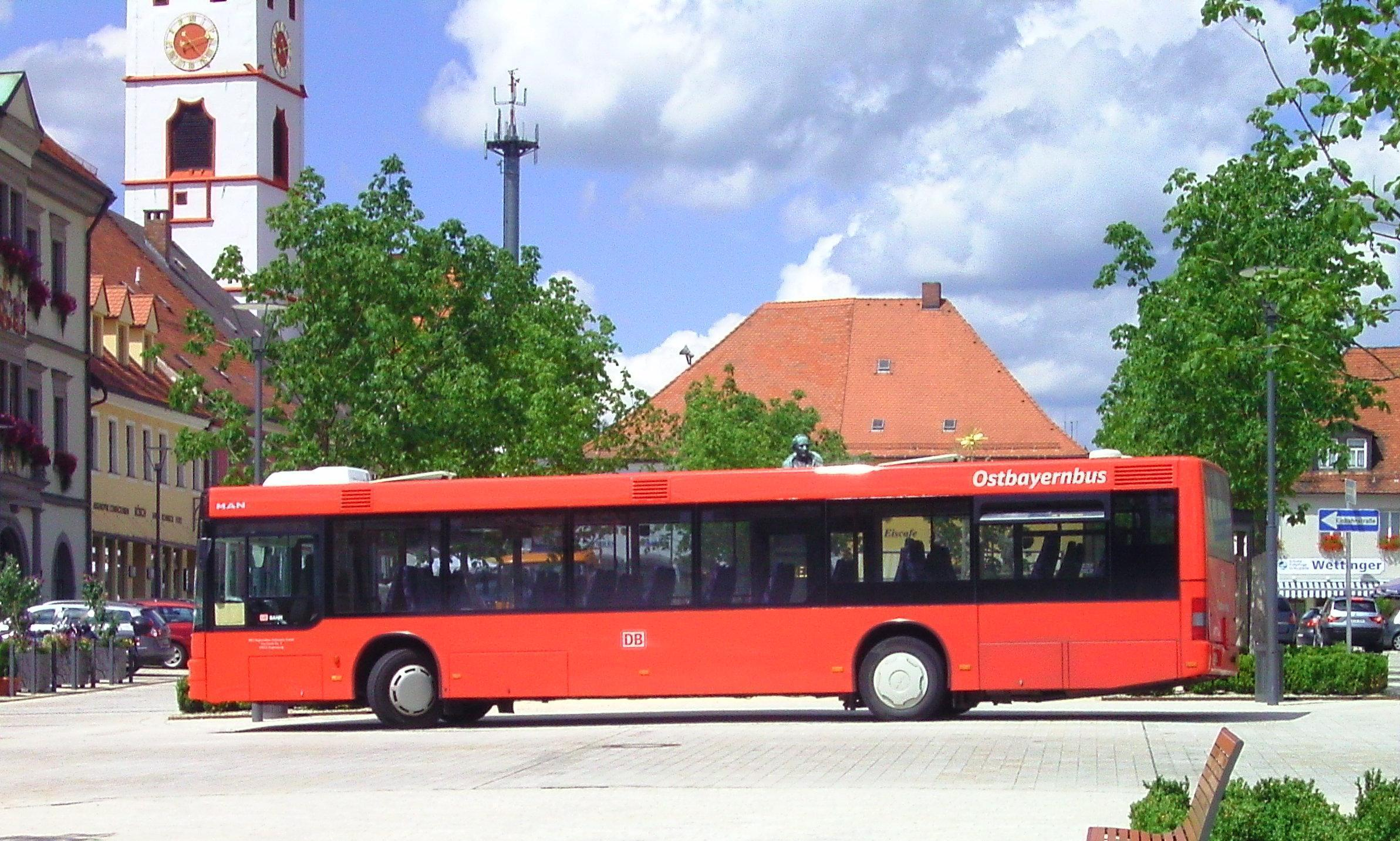 Bus of RBO in Tirschenreuth.